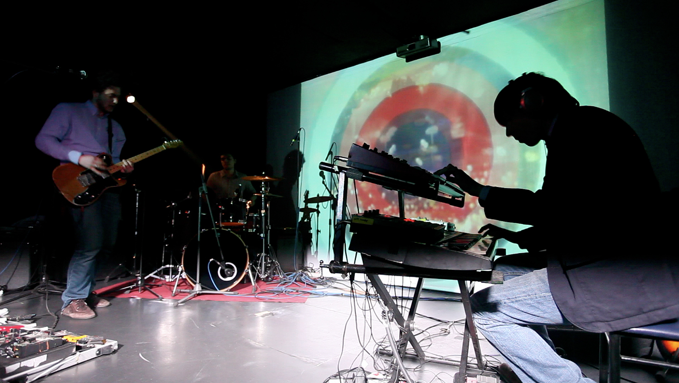 EIMIC's gig in Saint-Petersburg club SHUM